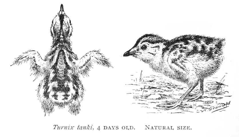 Turnix tanki chicks